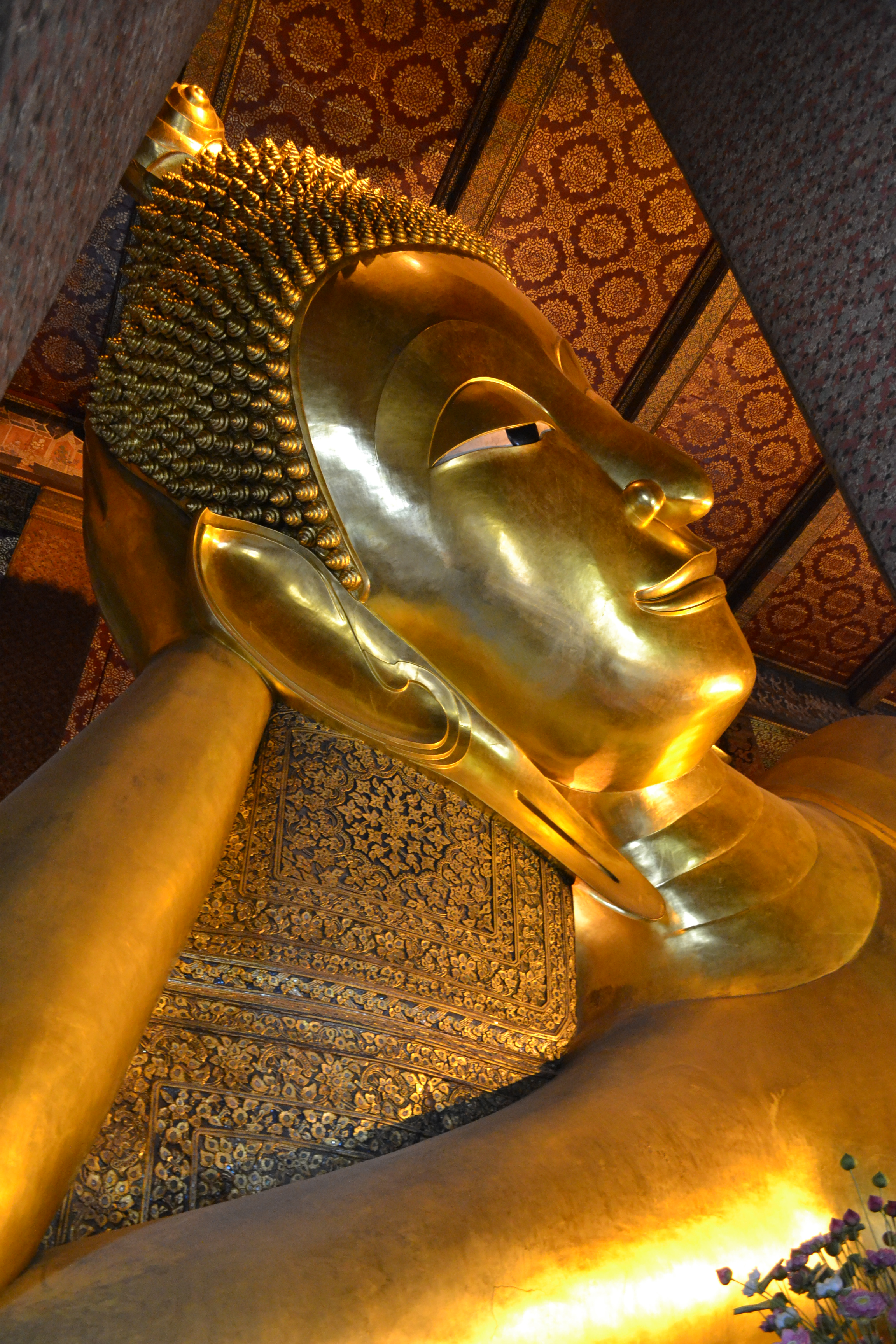 The head of the big reclining Buddha at Wat Pho, Bangkok, Thailand.